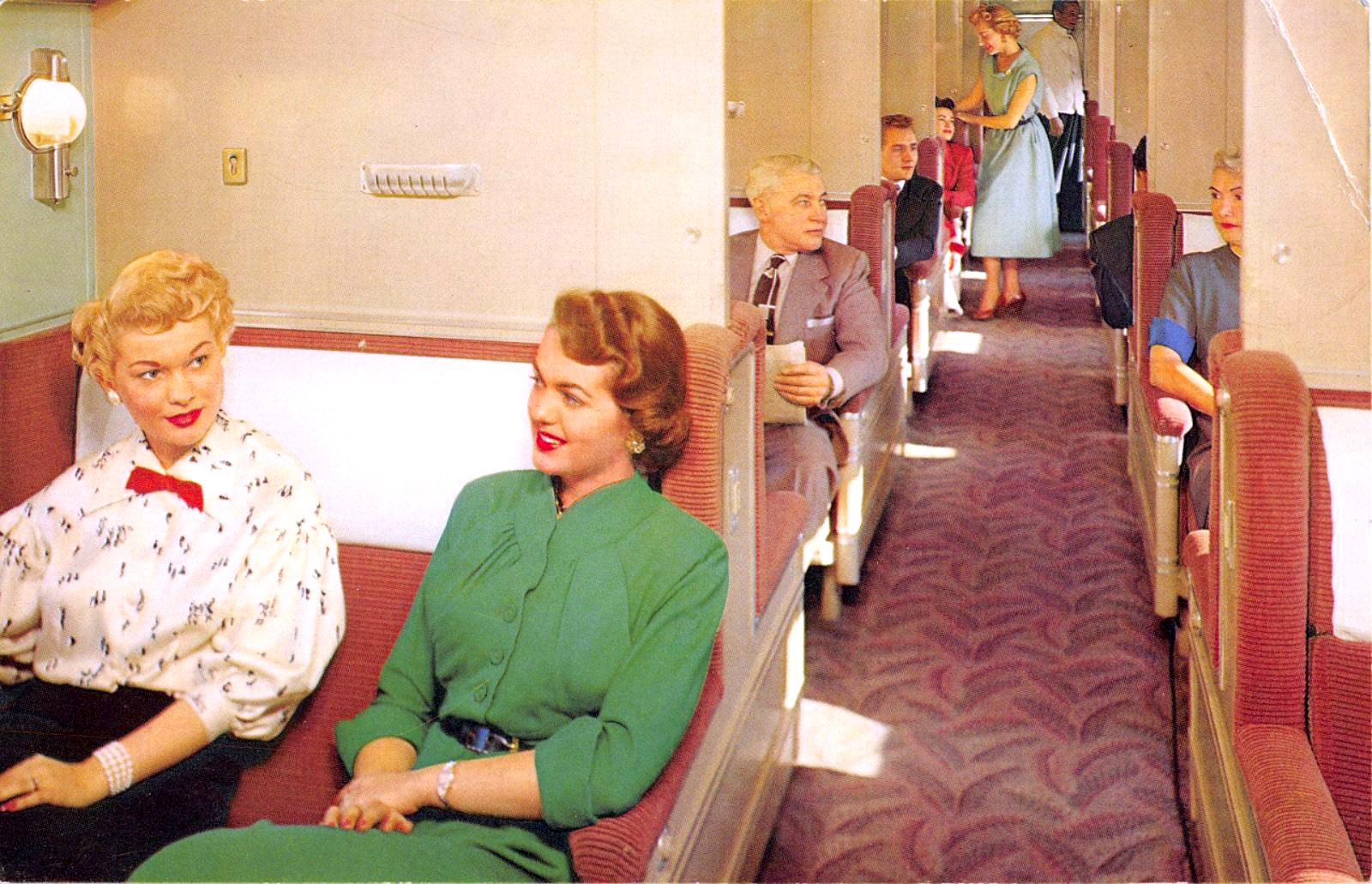 Photo postcard of a Union Pacific Railroad Pullman car as it appeared during the day-made into seating.